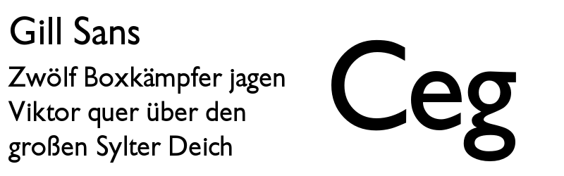 german pangram in typeface Gill Sans